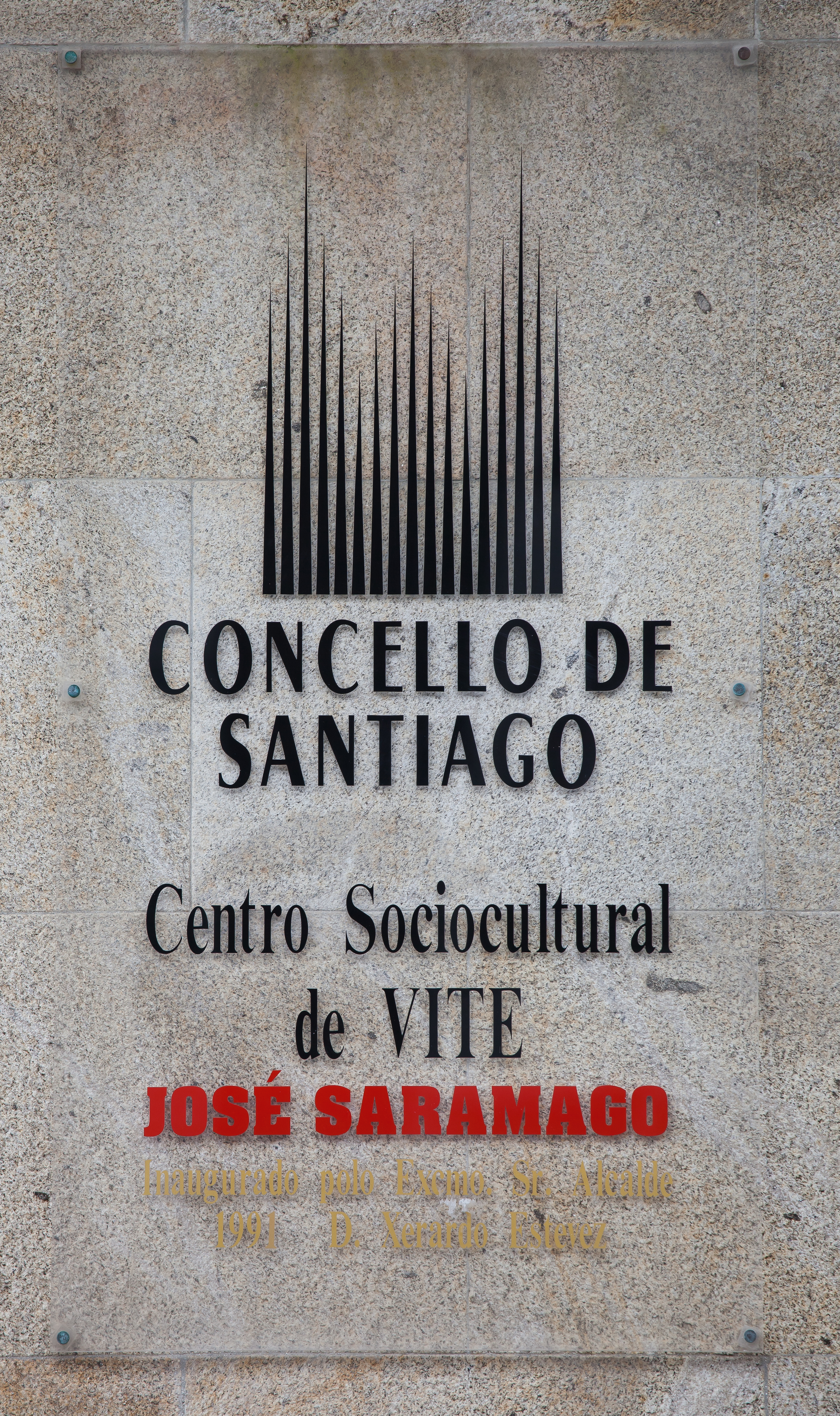 Social and cultural center of Vite, parish of San Xoán de Vista Alegre, Santiago de Compostela, Galicia (Spain)